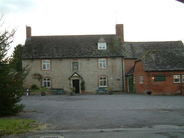 The Harcourt Arms, Stanton Harcourt, Oxfordshire